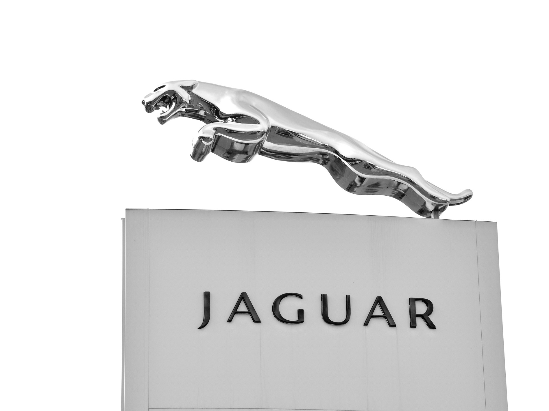 Jaguar - sign (bw)